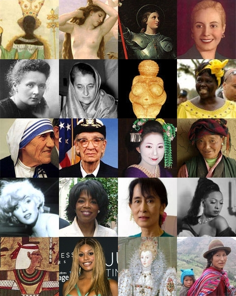 Collage of 20 women